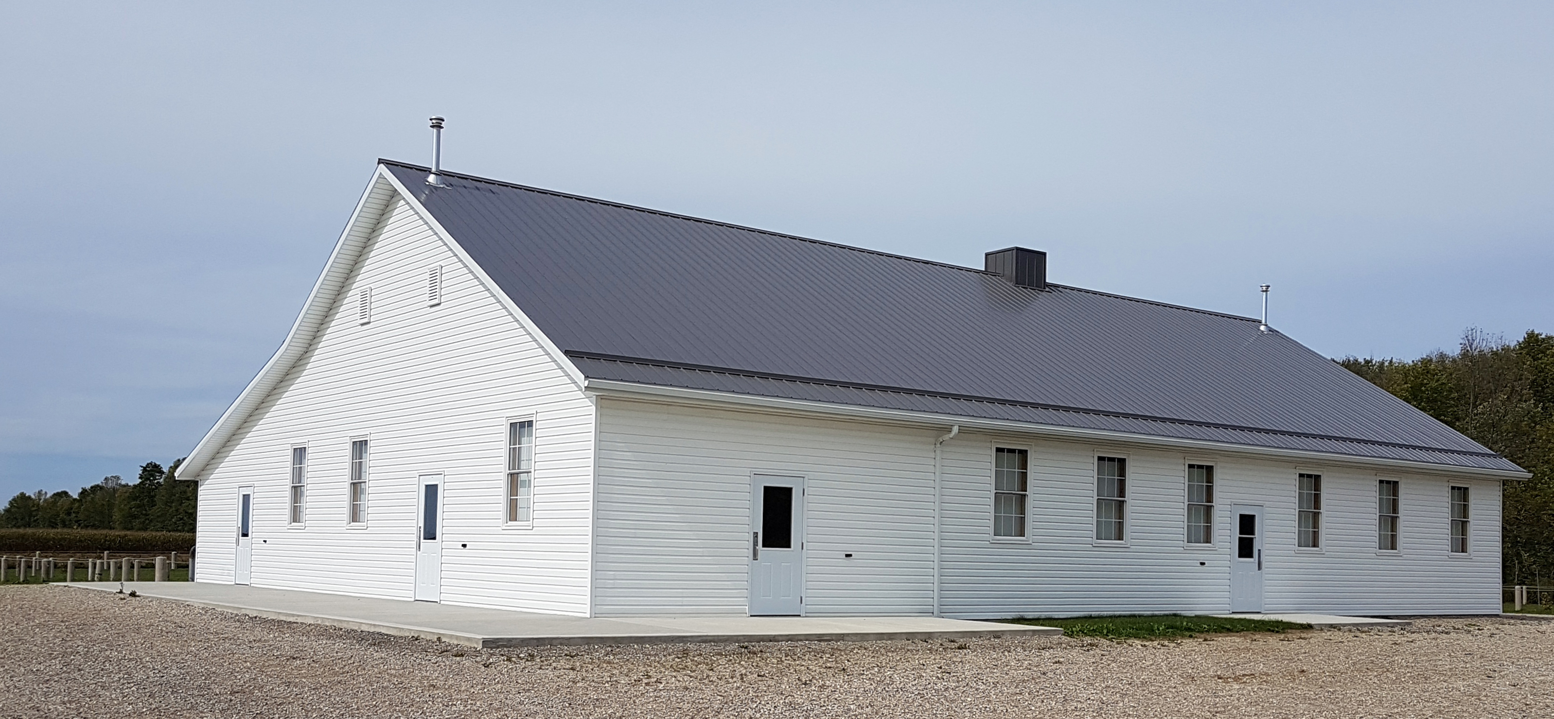 Located in West Montrose, Ontario